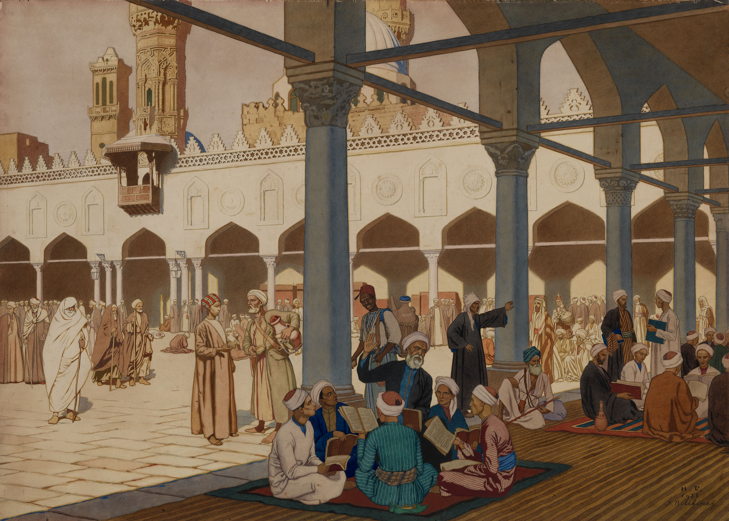 Иван Билибин. «Двор мечети Ал-Азар и университетский комплекс Каира» Courtyard of the Al-Azhar Mosque and University, Cairo, signed, also signed with initials and dated 1928, also further signed and inscribed "23 Bd Pasteur, Paris, XV" on the reverse. Pencil, watercolour and gouache on cardboard, 54.5 by 76 cm. 100,000-150,000 GBP Provenance: Important private collection, Germany. Authenticity of the work has been confirmed by the expert V. Petrov. Ivan Yakovlevich Bilibine was a brilliant draughtsman with a unique style. His instantly-recognisable virtuoso technique, comprising areas of soft watercolour bounded by an elegant line, had already assured him acclaim as a true aesthete during his lifetime. The Bilibine style was born. The artist had many disciples and imitators including two who were quite well-known, Zvorykin and Matorin; yet despite their undoubted talent they only ever managed to mimic the exterior, surface qualities of the master’s work. In fact, Ivan Bilibine remained the unsurpassed innovator of Russian graphic art in the Silver Age, and his illustrations of Russian folk tales and epics are a superlative exemplar of the graphic art of their time. Courtyard of the Al-Azhar Mosque and University, Cairo is not just an everyday oriental scene based on the fruits of his travels in the South. The accuracy with which he conveys the nuances of atmosphere and colour in Cairo, the specifics of architectural detail and the soft afternoon light, as well as the freshness of the composition, all combine to place this work within a group of unique, museum-quality works by this outstanding Russian artist.